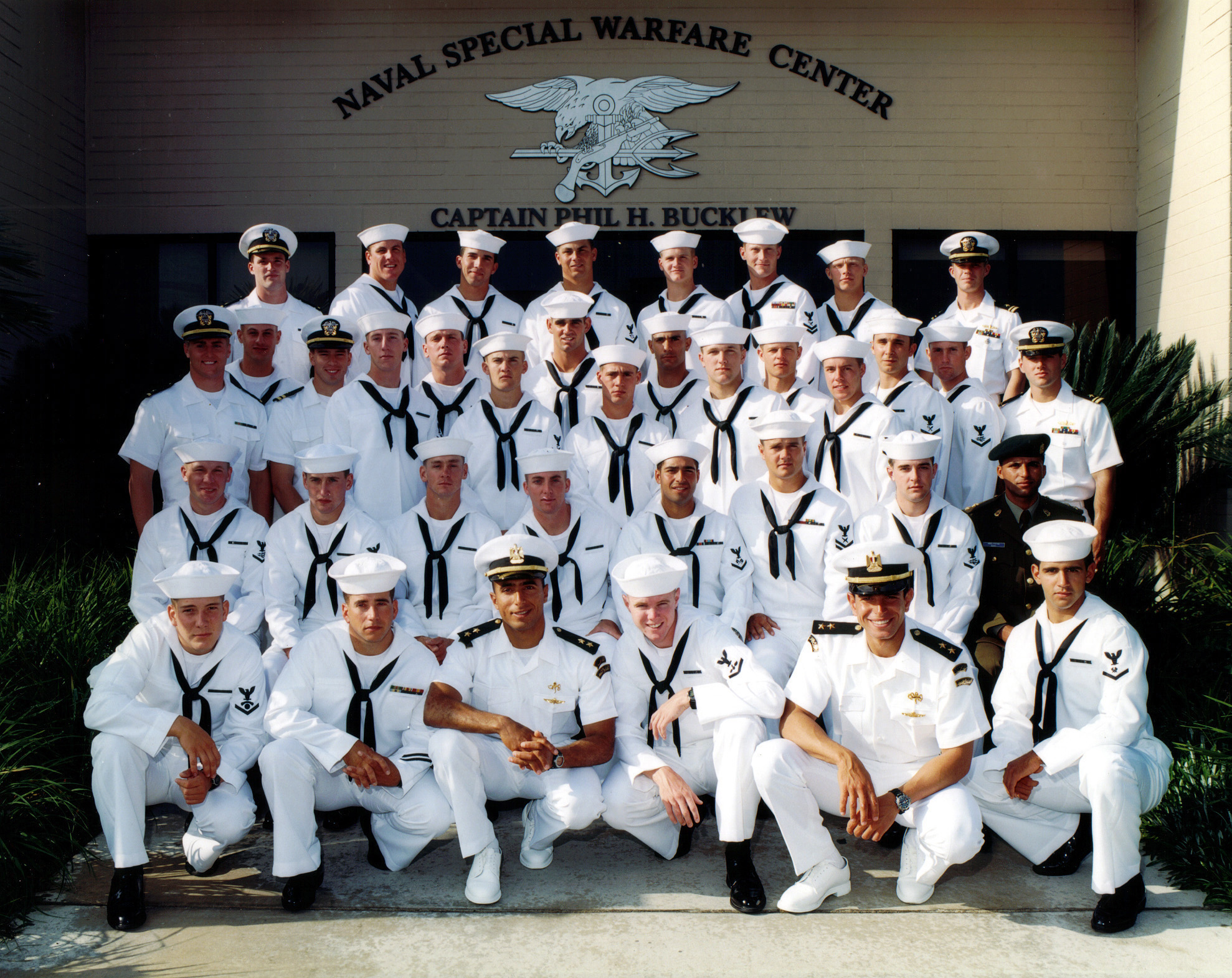 CORONADO, Calif. (Oct. 19, 2001) - Navy file photo of Basic Underwater Demolition/SEAL (BUD/S) graduating class 236. Navy SEAL Lieutenant Michael P. Murphy, 29, from Patchogue, New York is pictured on the far left side of the back row. Murphy was killed by enemy forces during a reconnaissance mission, Operation Red Wings, June 28, 2005, while leading a four-man team tasked with finding a key Taliban leader in the mountainous terrain near Asadabad, Afghanistan. The team came under fire from a much larger enemy force with superior tactical position. Murphy knowingly left his position of cover to get a clear signal in order to communicate with his headquarters and was mortally wounded while exposing himself to enemy fire. While taking heavy fire from the enemy, Murphy provided his units location and requested immediate support for his element. He returned to his cover position to continue the fight until finally succumbing to his wounds. Please note: Two Egyptian Naval Special Warfare officers in the front of the group crouching who were on secondment to the US Navy SEALs at the time of this photograph. U.S. Navy photo (RELEASED)